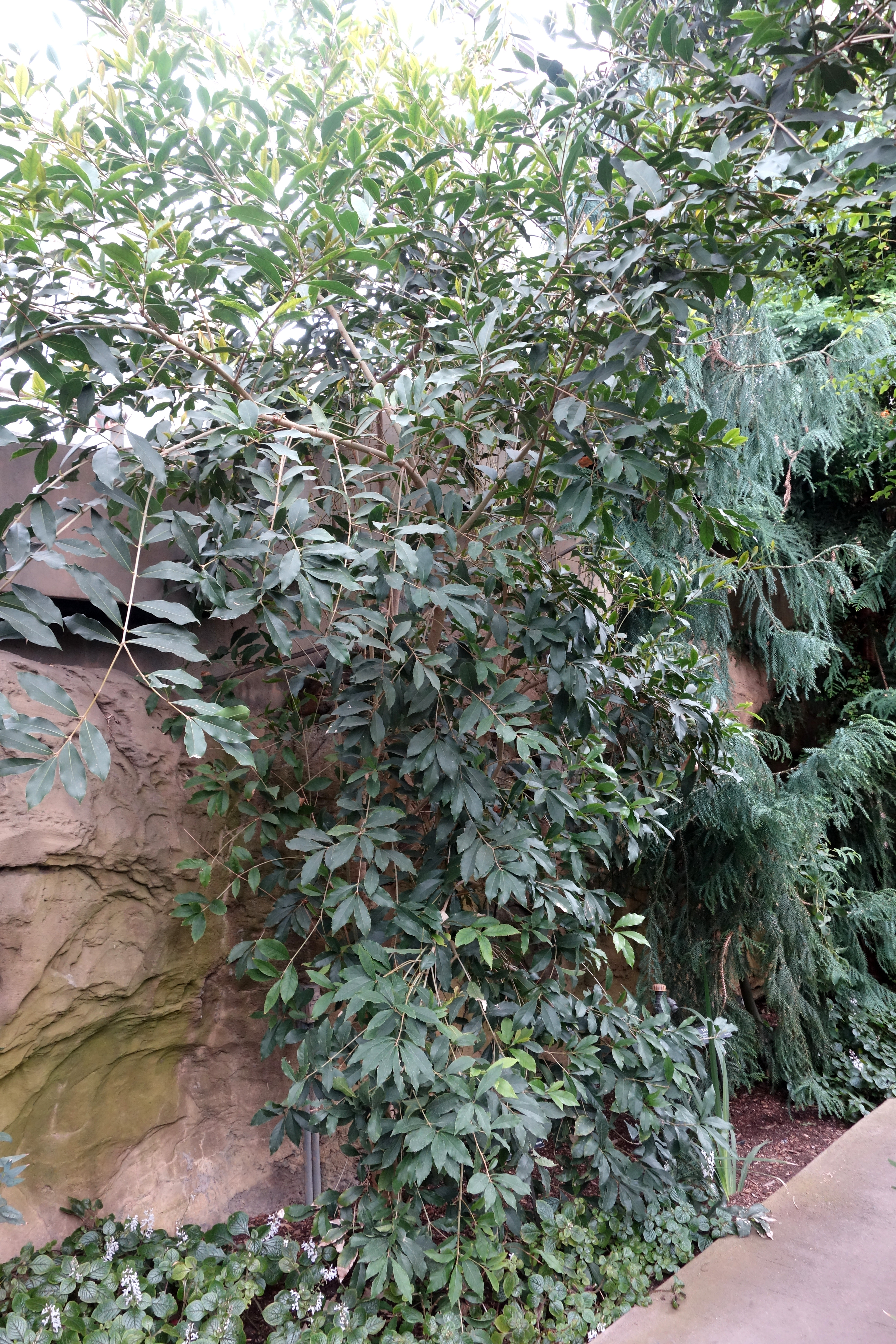 Botanical specimen in the Brooklyn Botanic Garden, Brooklyn, New York, USA.